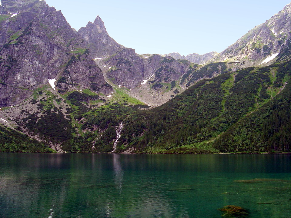 Dwoista Siklawa and Zleb pod Mnichem, Tatras, Poland